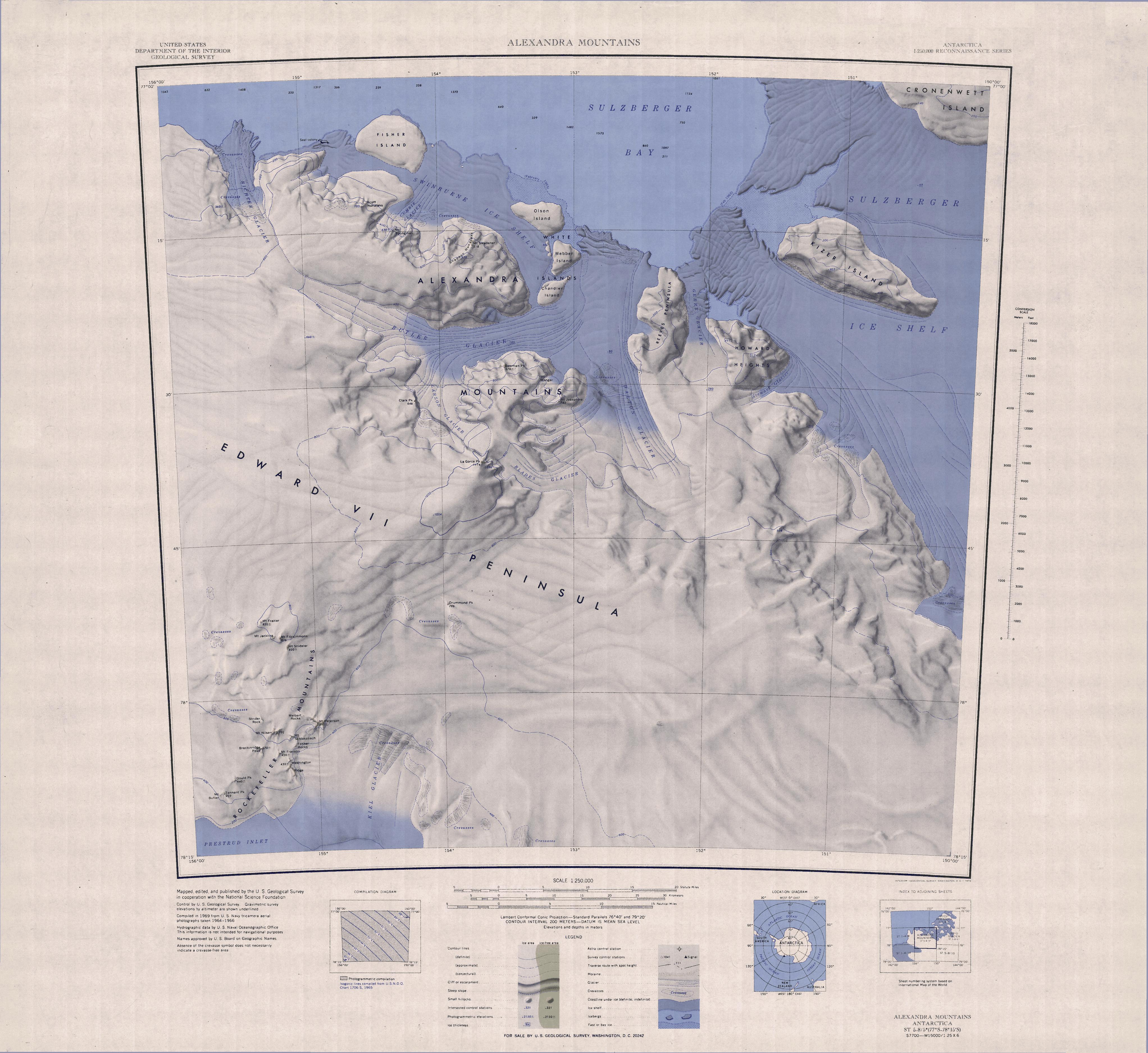 Map of Antarctica by the United States Antarctic Resource Center of the US Geological Society.